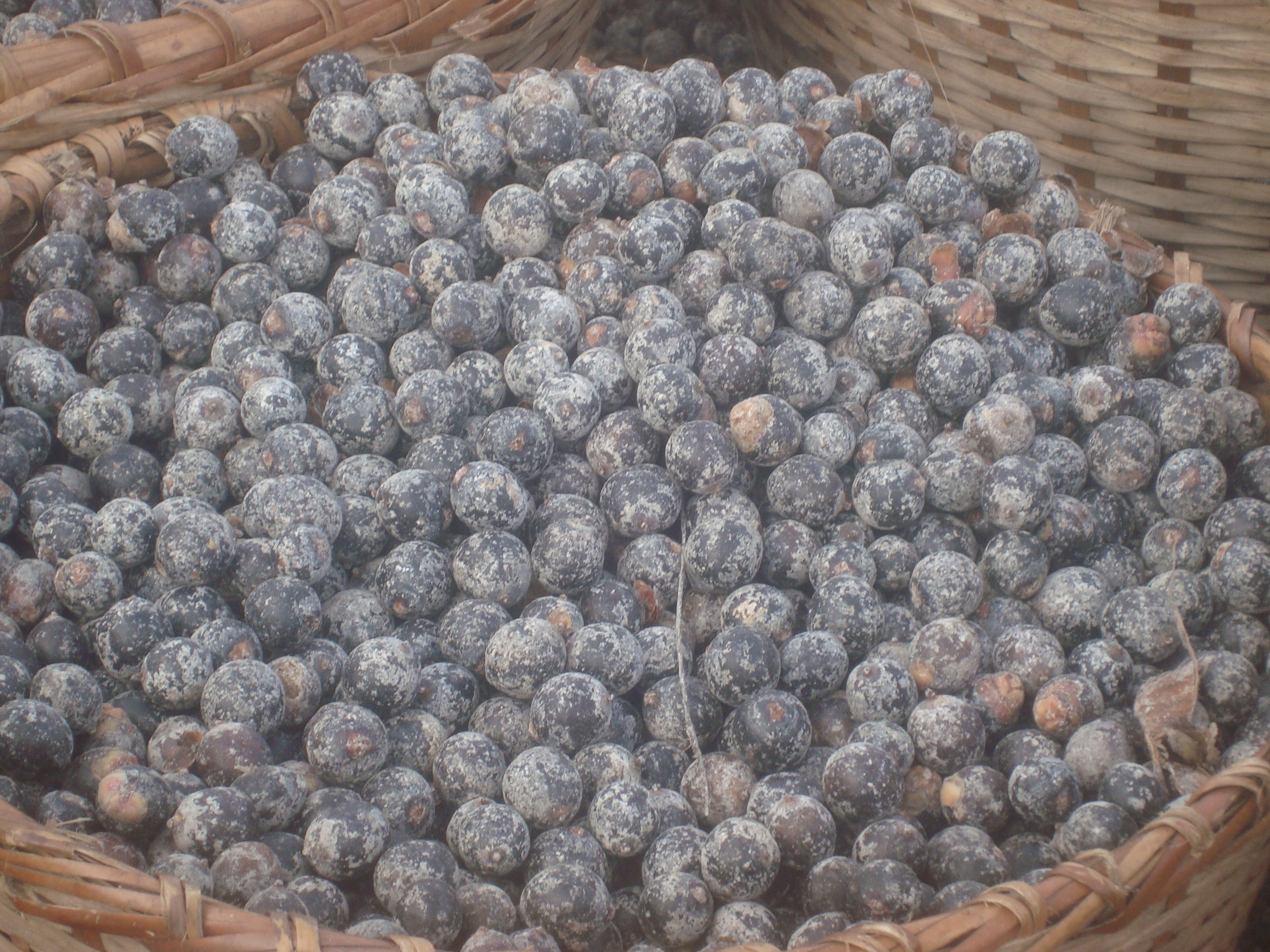 Bacaba fruit